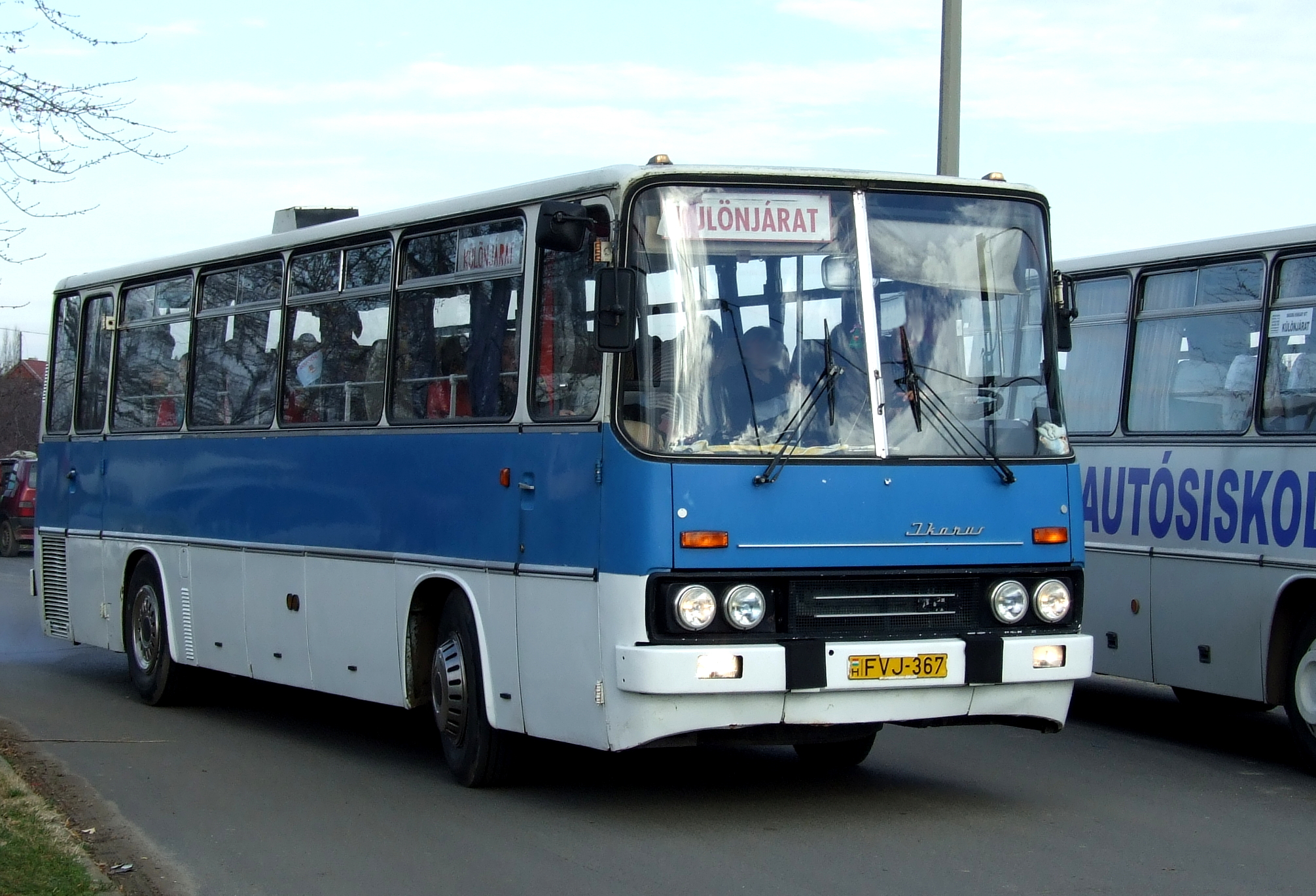 Ikarus 256 bus, first series, construction year 1977